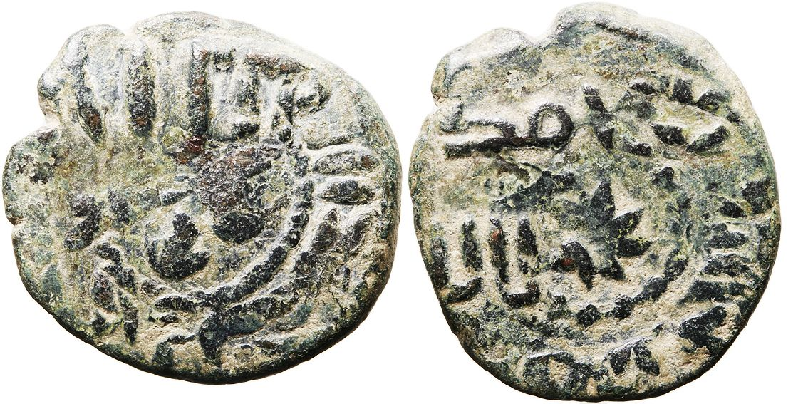 Falus of the Emirate de Córdoba. Made of copper, it shows greenish patina.